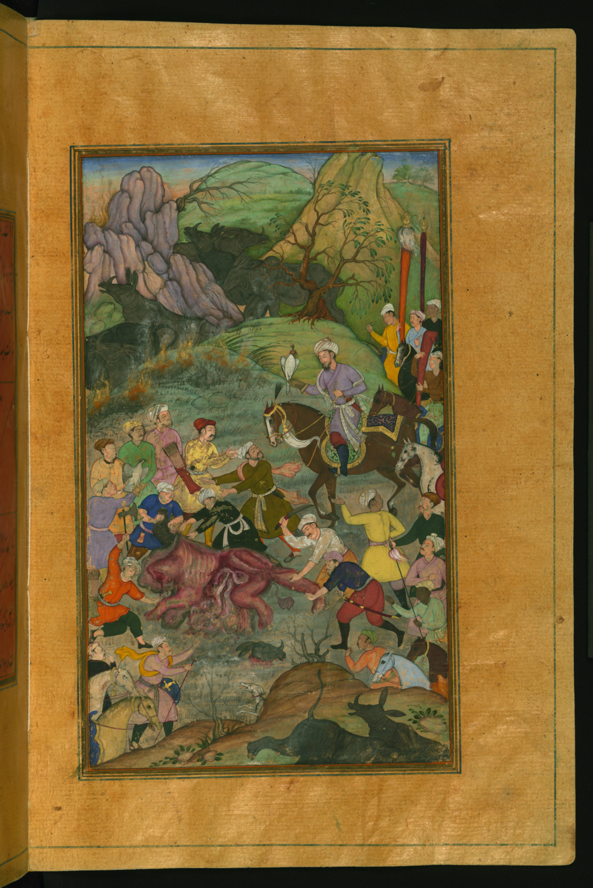 In this folio from Walters manuscript W.596, Babur is depicted with his party hunting for rhinoceros in Swati.